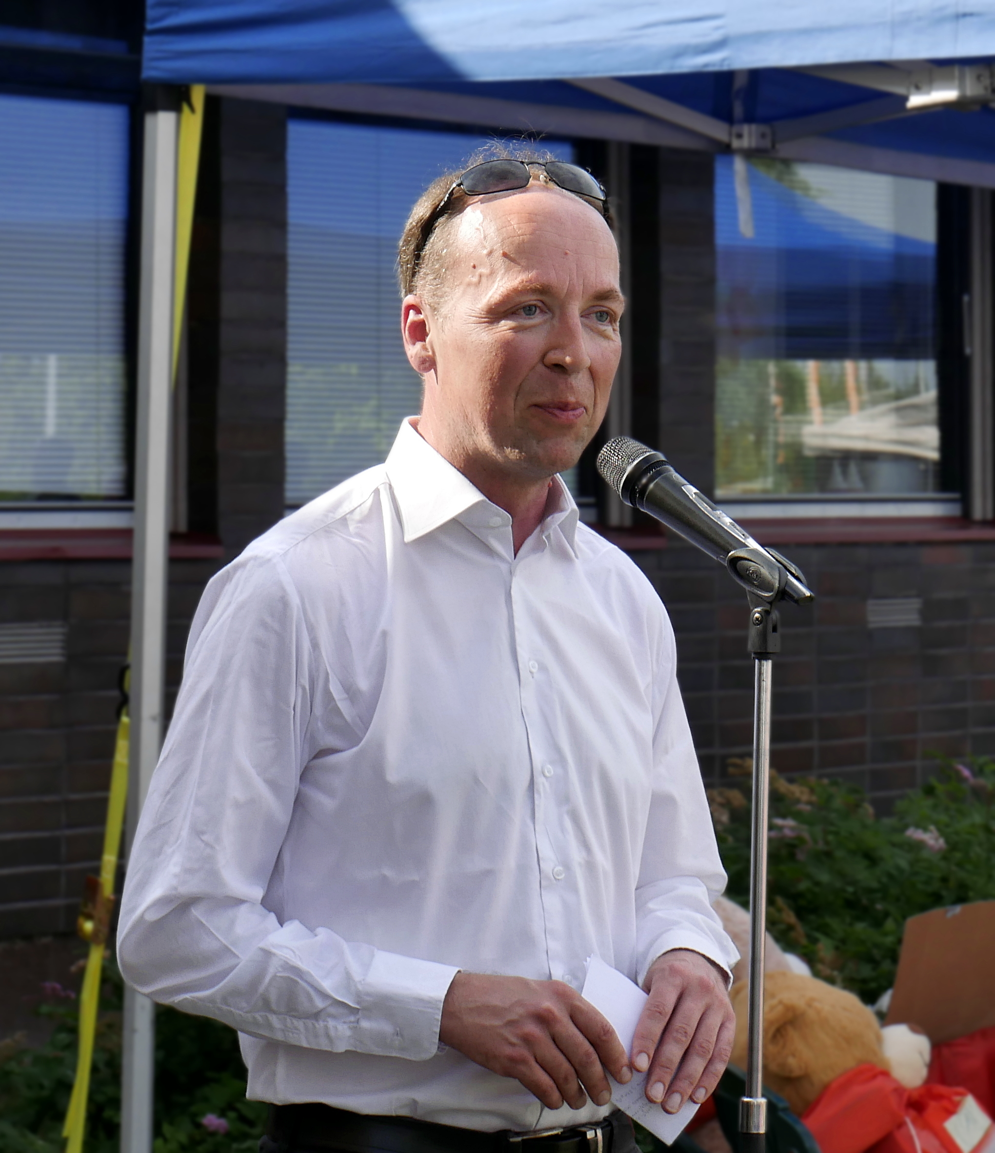 Finnish politician Jussi Halla-aho.